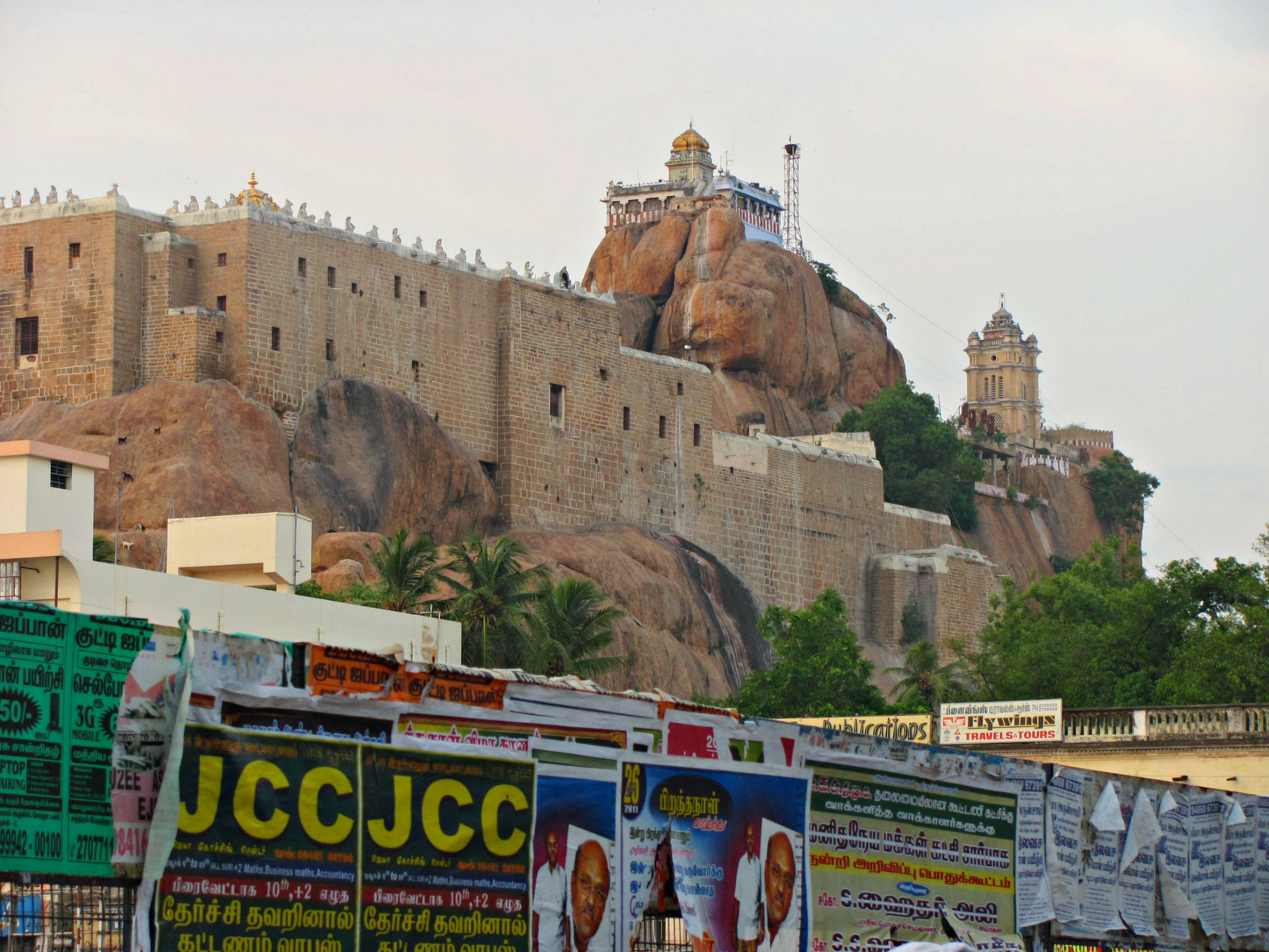 The famous Rock Fort Lord Ganesh temple in Tiruchirapalli.....Also known as the Uchipillaiyar Temple.....Its an iconic landmark for the city......